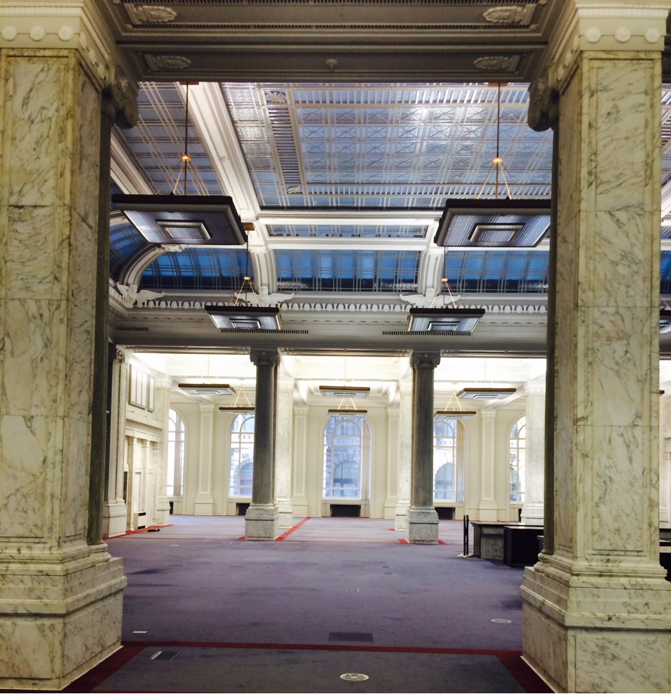 Marble clad hall where the BME will be located.